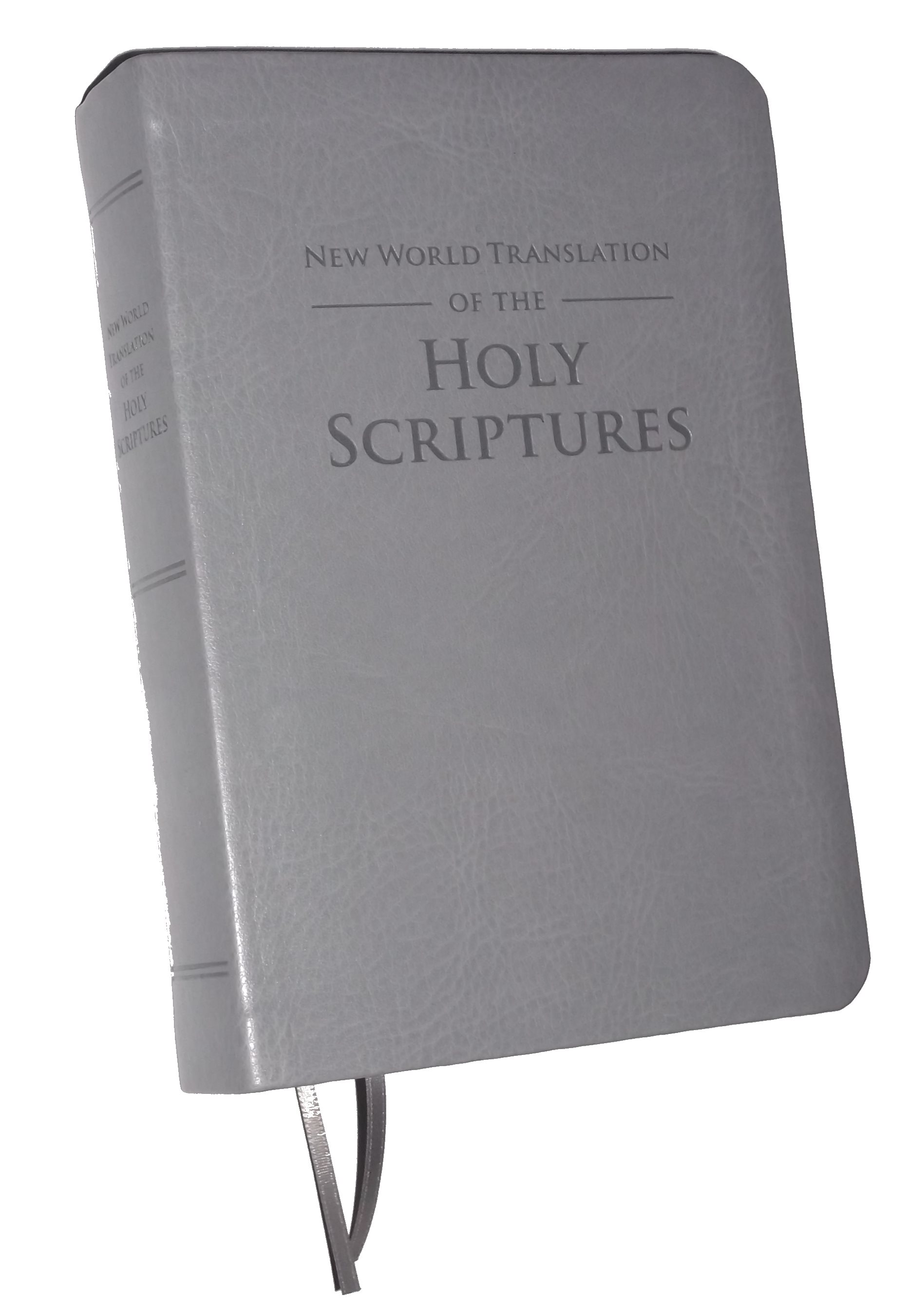 New World translation of the Holy Scriptures 2013 edition. Printed in Japan.